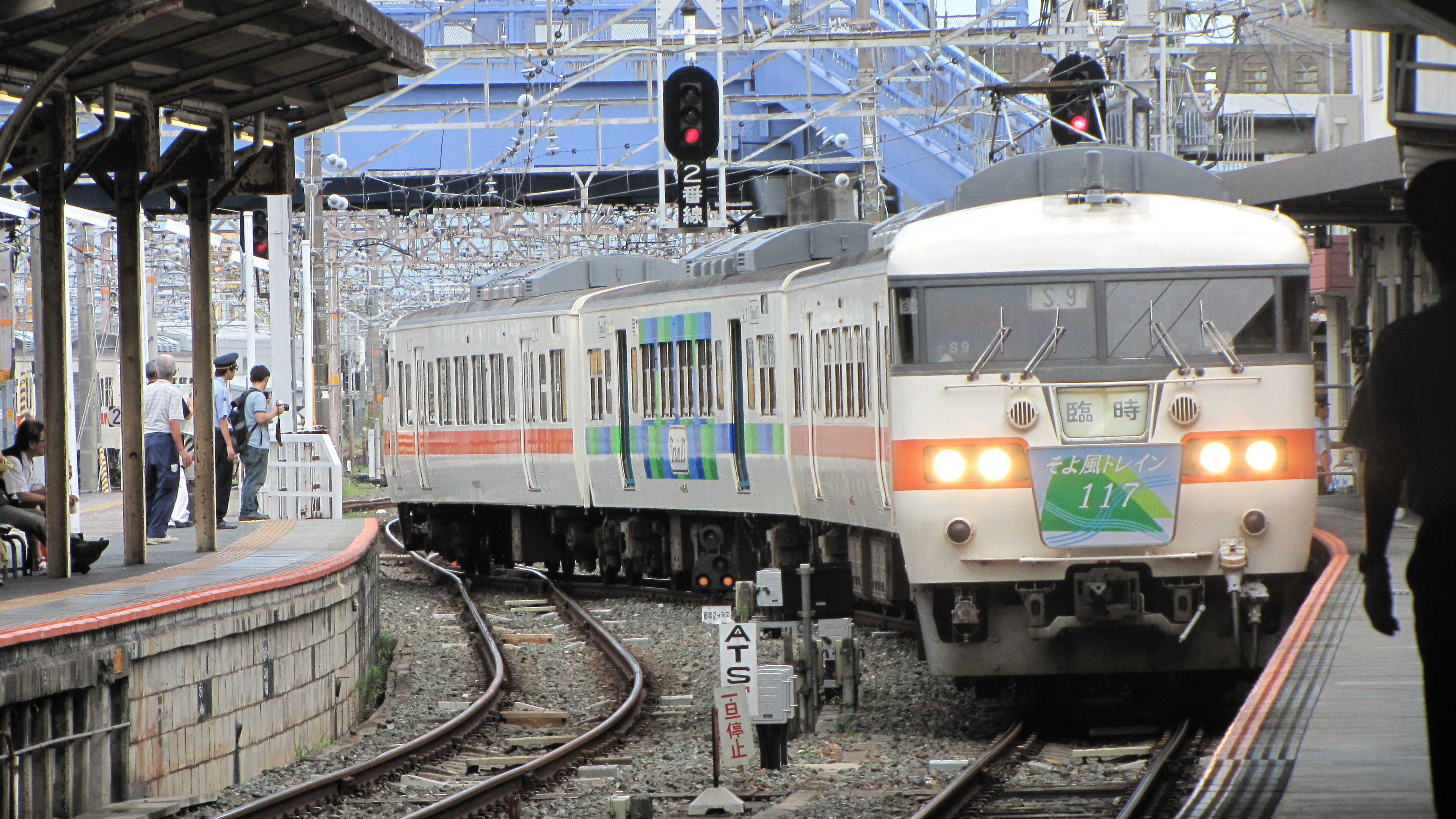 Modified JR Central 117 series "Soyo Kaze Train 117" EMU set at Toyohashi Station)